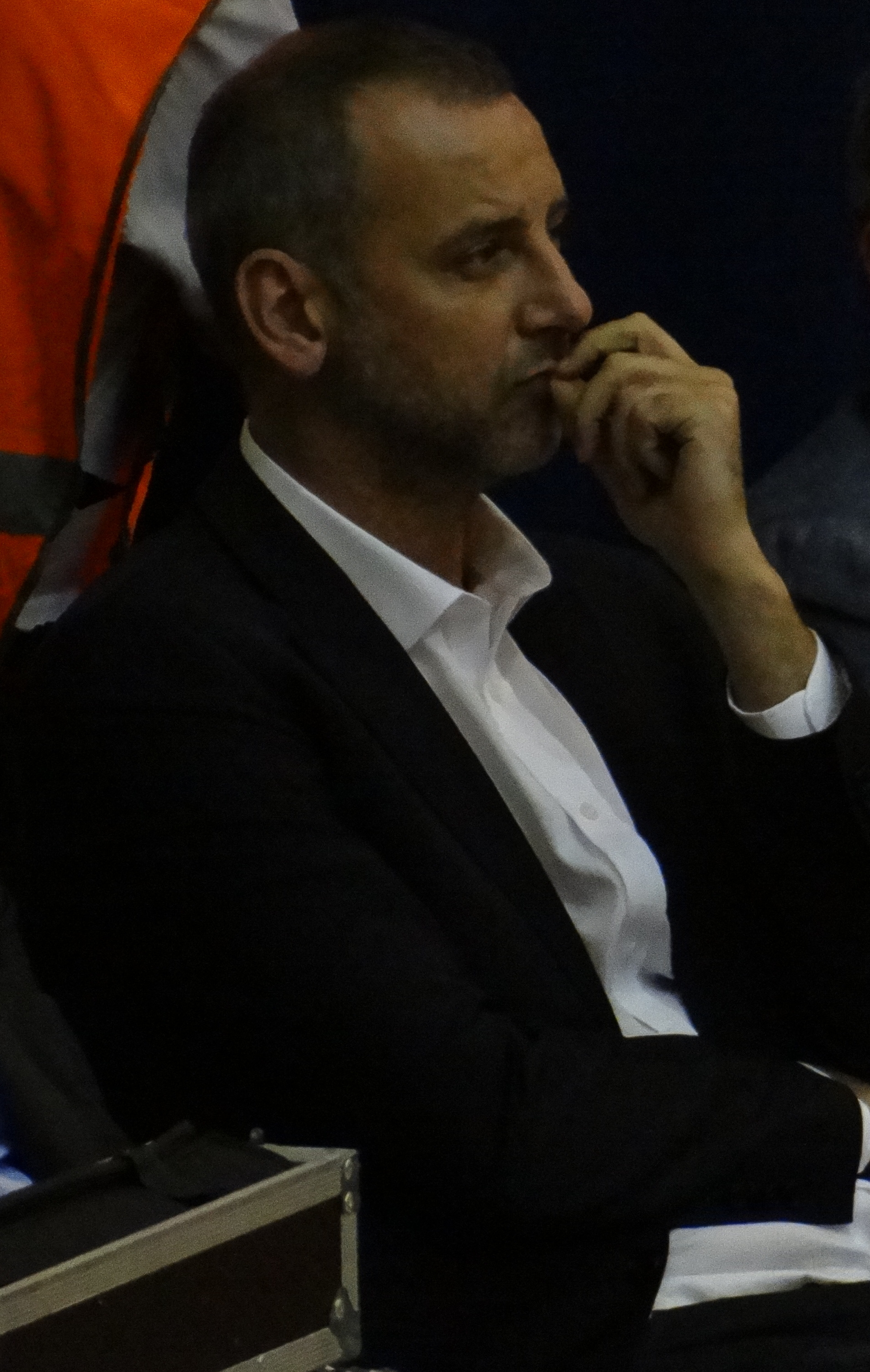 Fenerbahçe Women's Basketball vs Yakın Doğu Üniversitesi (women's basketball) TWBL 20180521